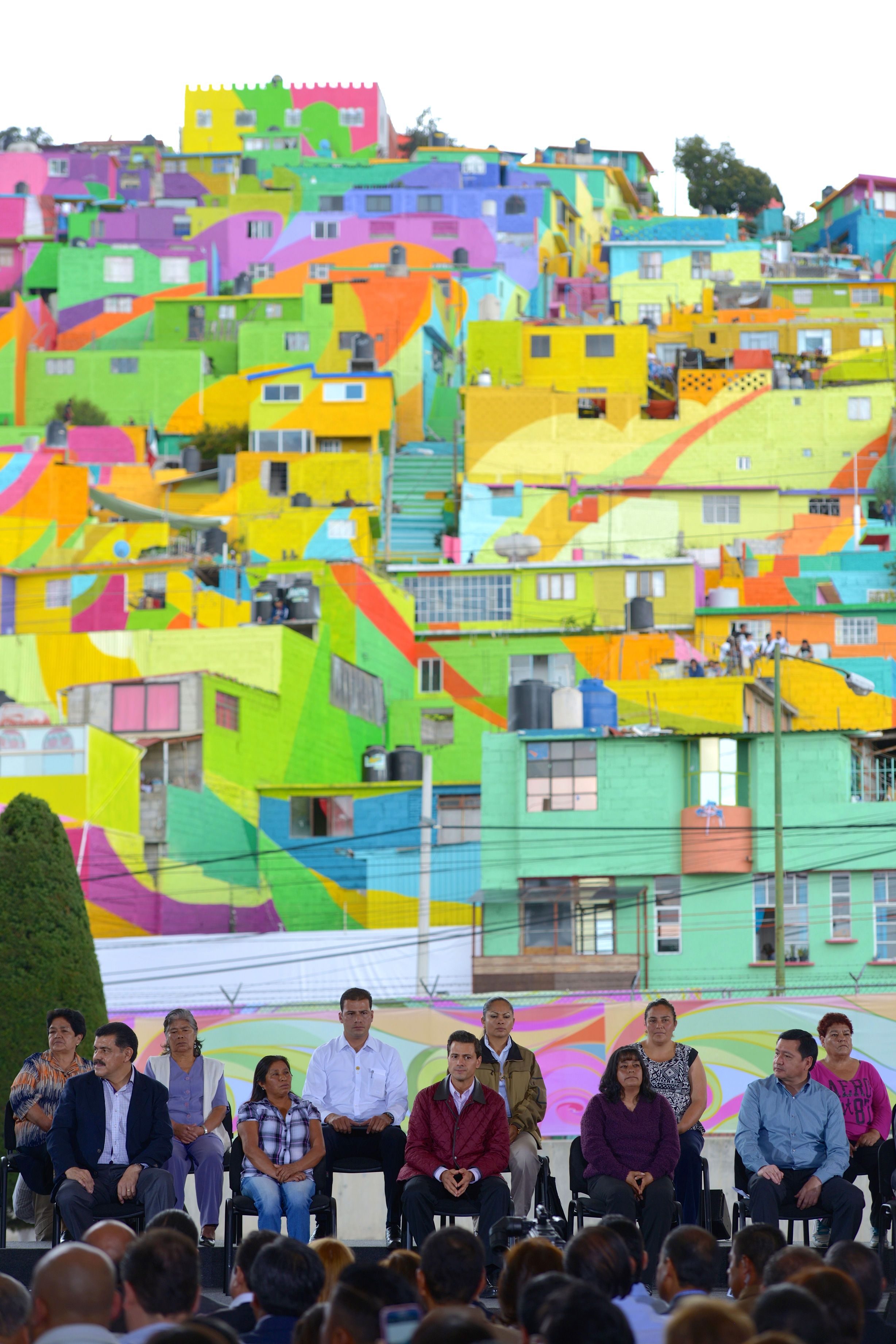 Inauguración del Macromural “Pachuca se Pinta”. Pachuca, Hidalgo. 31 de agosto de 2015.